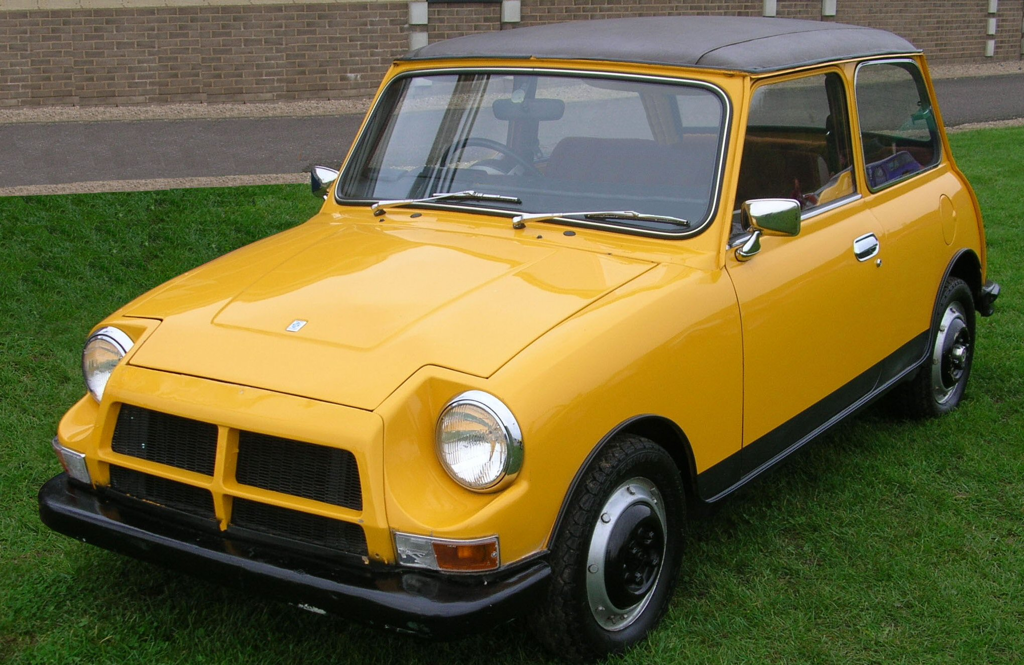 A 1974 Mini Clubman SRV4 Safety Research Vehicle. One of the vehicles British Leyland produced as part of a joint safety project with the Transport and Road Research Laboratory. It features: a strengthened passenger cell, impact resistant low-mounted bumpers, fully padded interior, and pedestrian-friendly bonnet, longer wheelbase with engine moved forward, high door sills and relocated fuel tank. Photographed at the Alec Issigonis centenary rally at the Heritage Motor Centre, Gaydon, UK. This vehicle is kept at the Heritage Motor Centre.